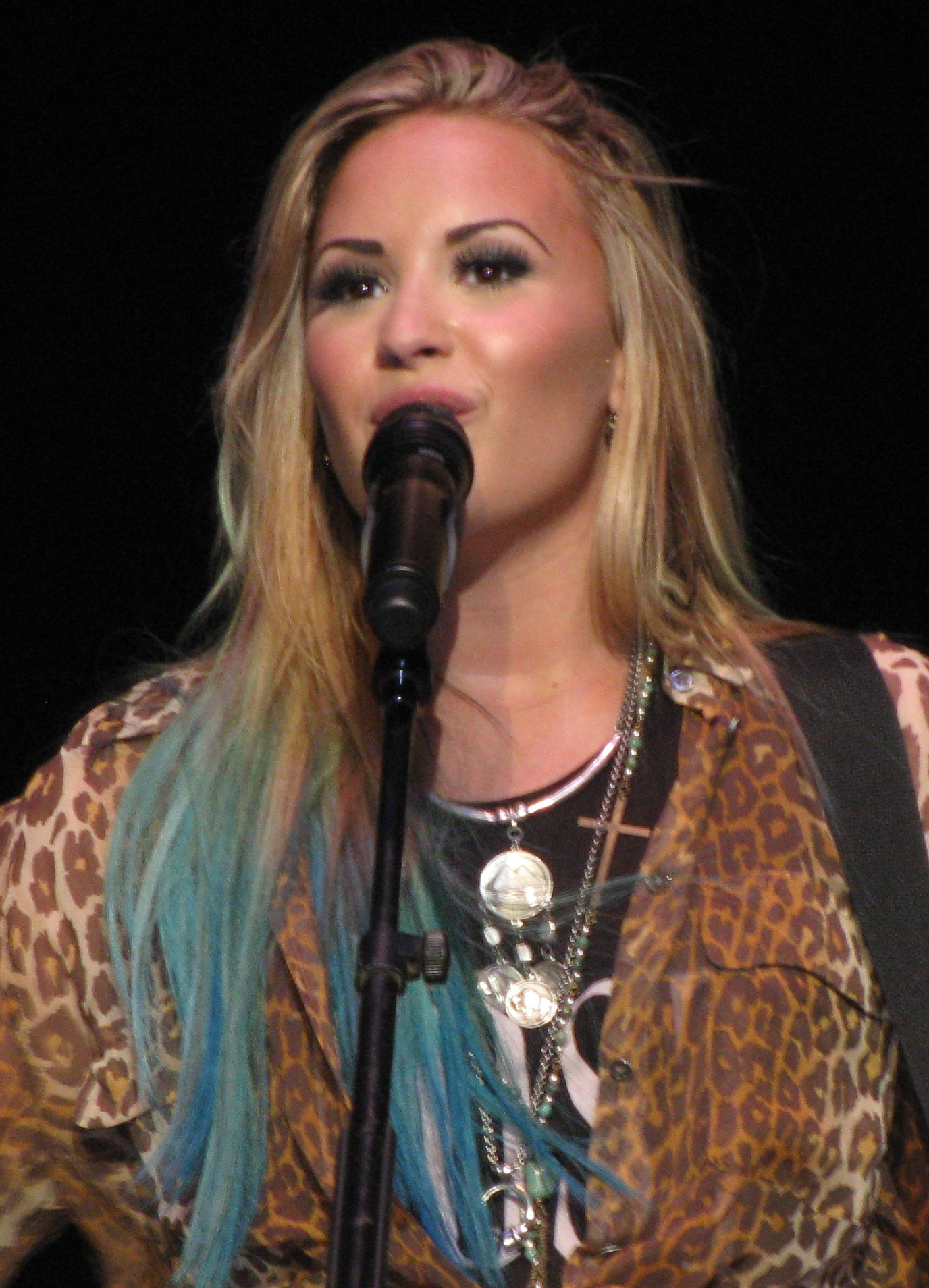 Demi Lovato performing at a concert in Springfield, IL.